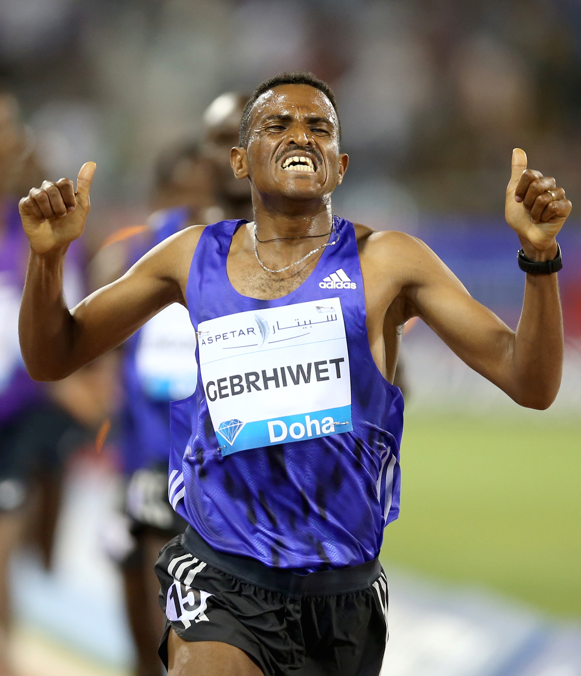 Ethiopia's Hagos Gebrhiwet celebrates after winning men's 3,000M gold at the Doha Diamond League.